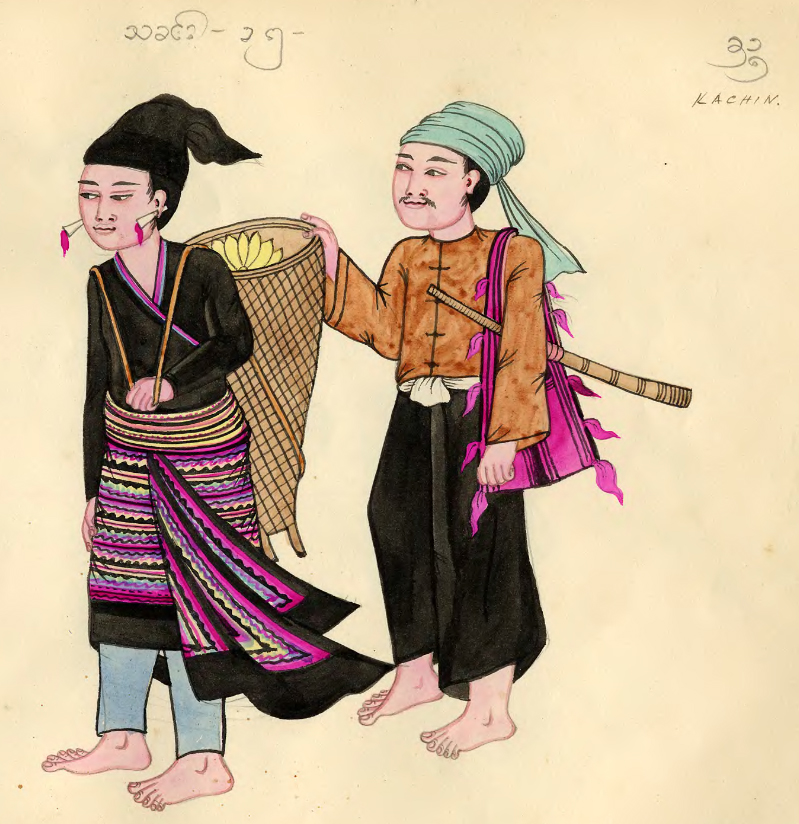 Kachin tribe from a Burmese handpainted color manuscript